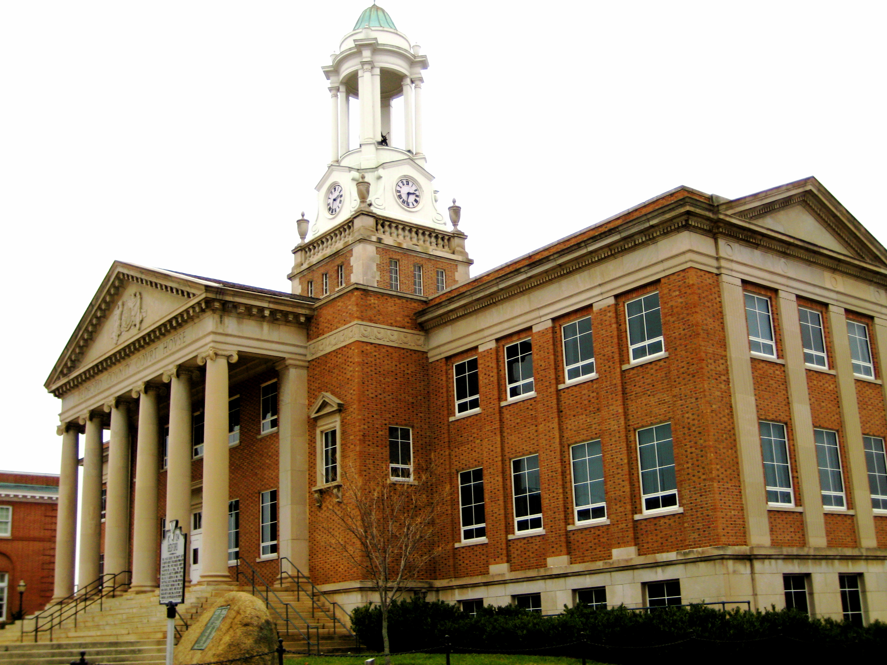 Bedford County Courthouse in Bedford, Virginia, USA.